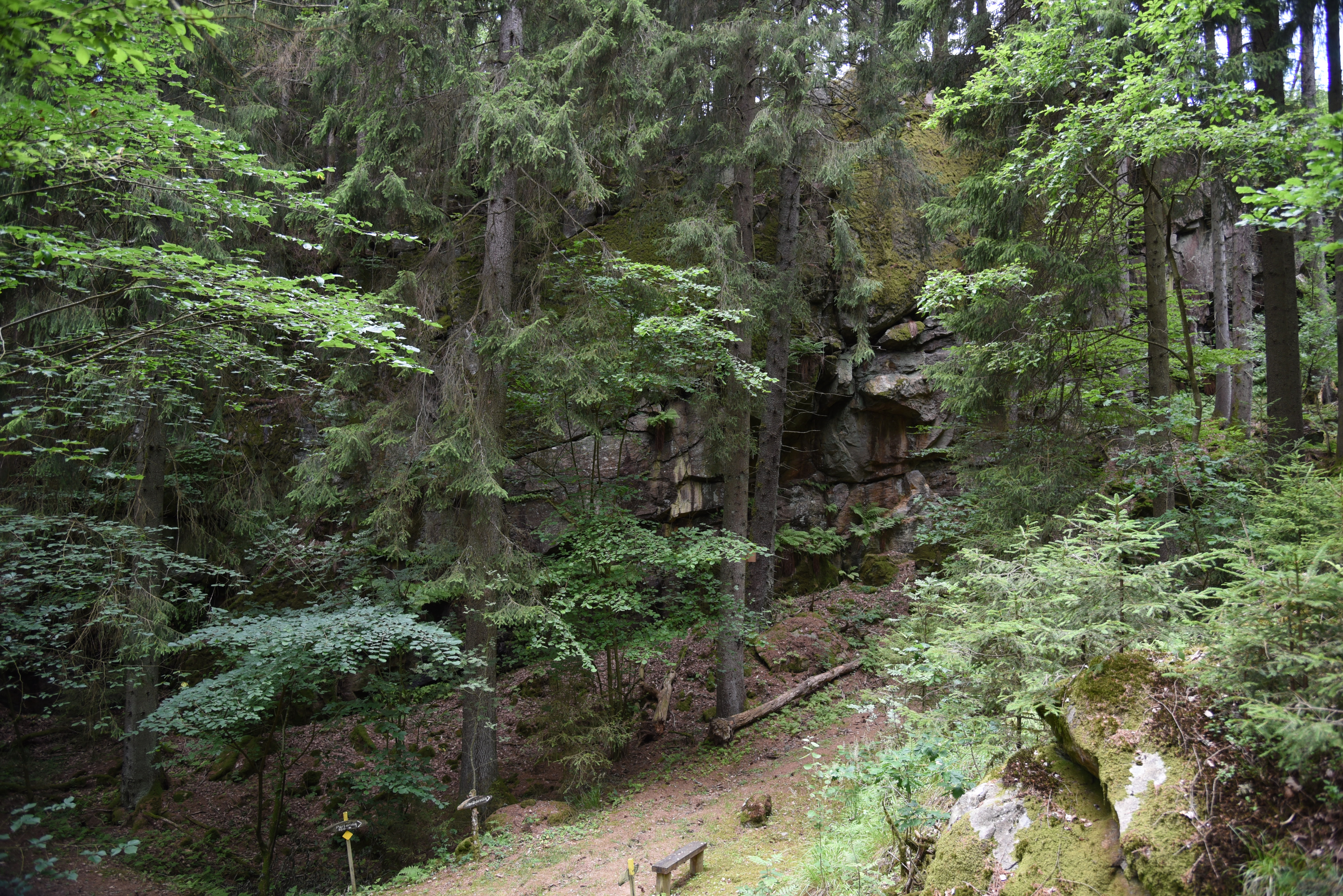 Liagärde nature reserve in Mark Municipality, Sweden.